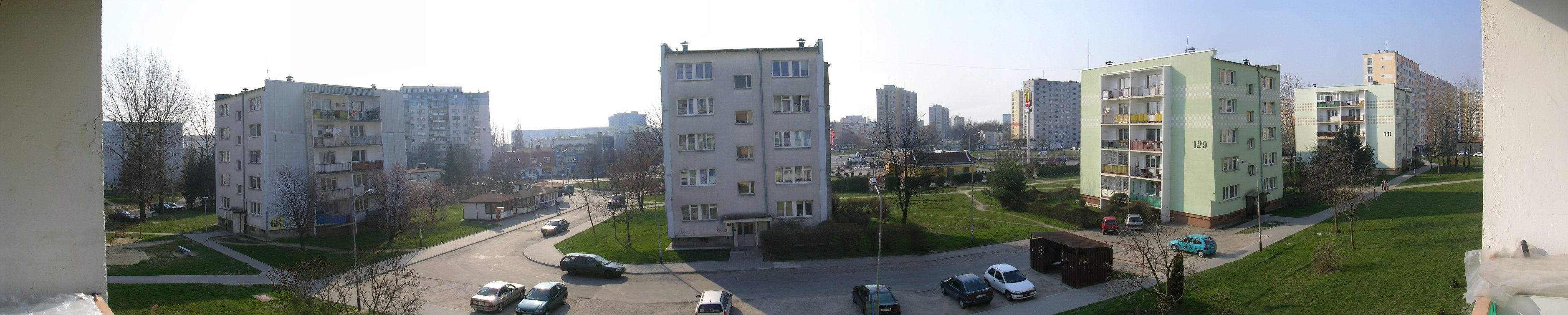 A view from my balcony.